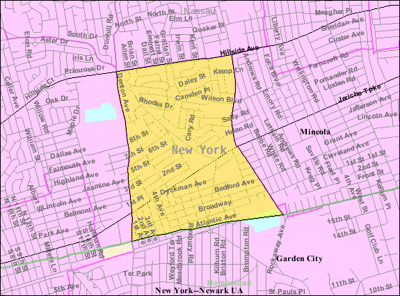 Garden City Park, NY (CDP, 2000)